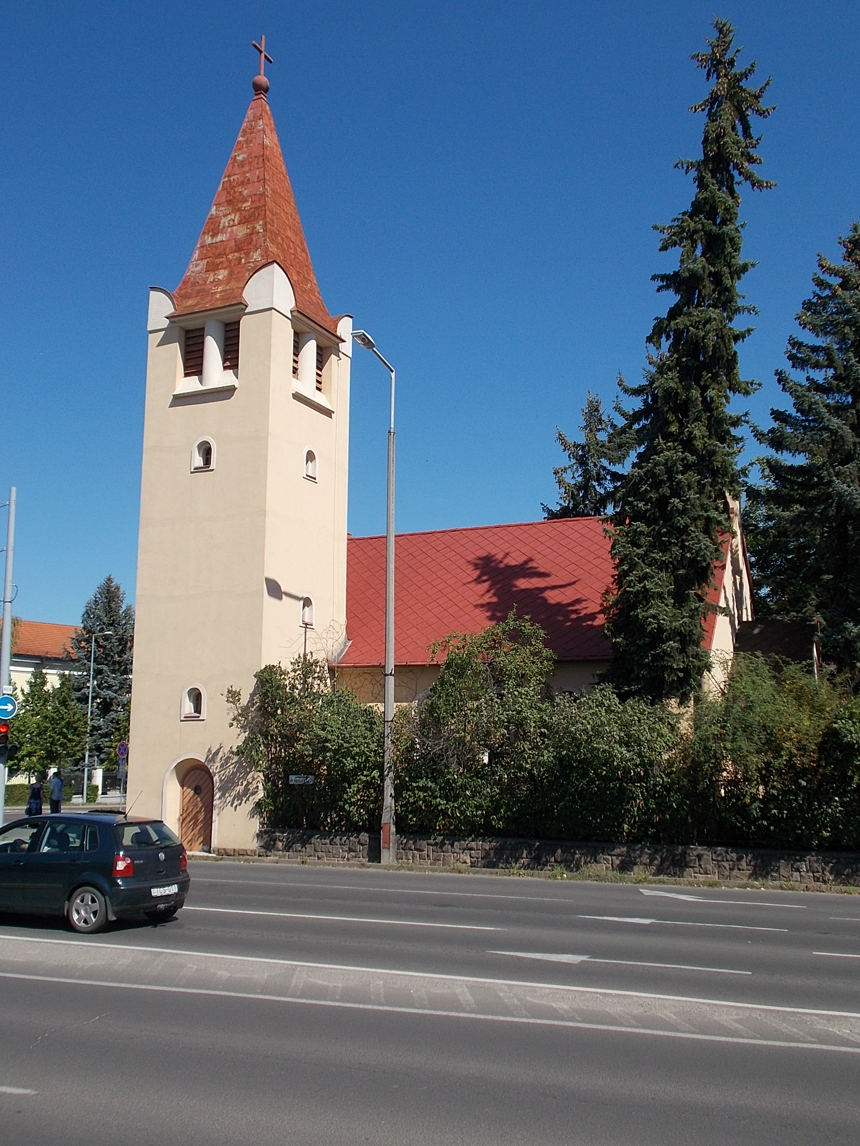 Lutheran church (1940). - Törvényház Street, Eger, Heves County, Hungary.